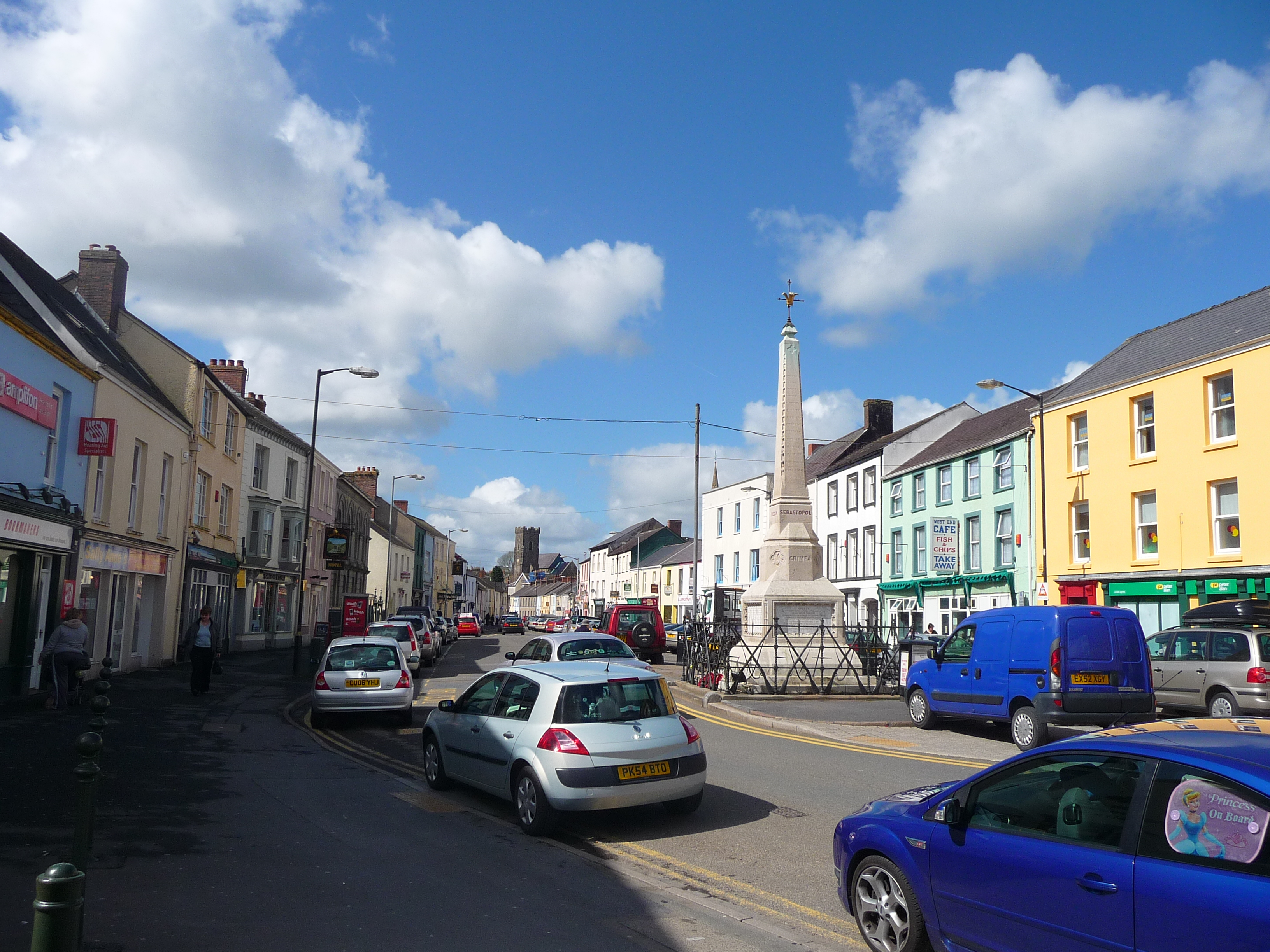 Rhyshuw1 (talk) 15:08, 8 April 2009 (UTC)